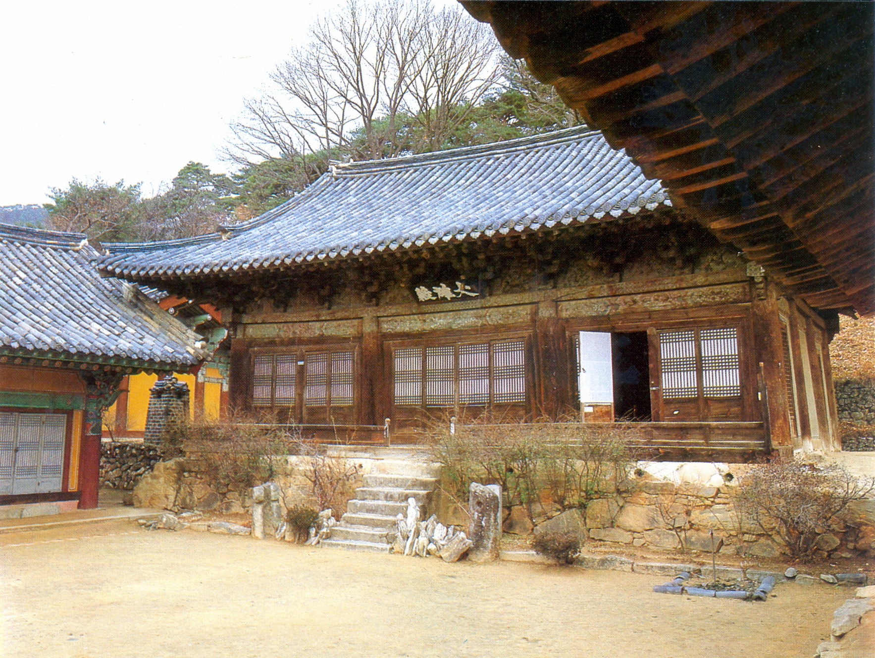 Bongjeongsa